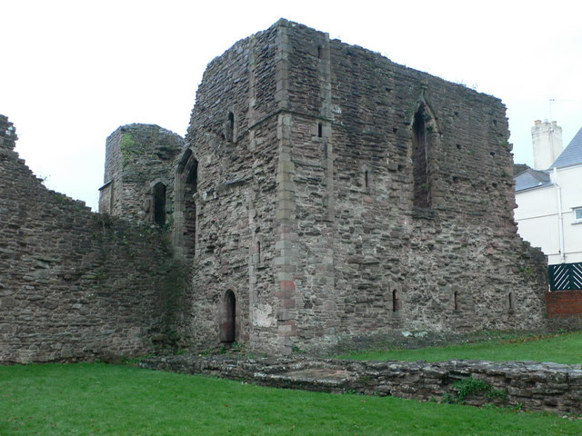 Great Tower, Monmouth Castle It was probably in this tower that Henry V was born in 1387. The castle at that time belonged to his grandfather, John of Gaunt. Henry became Prince of Wales when his father seized the throne from Richard II and succeeded to the throne in 1413 at the age of 26.